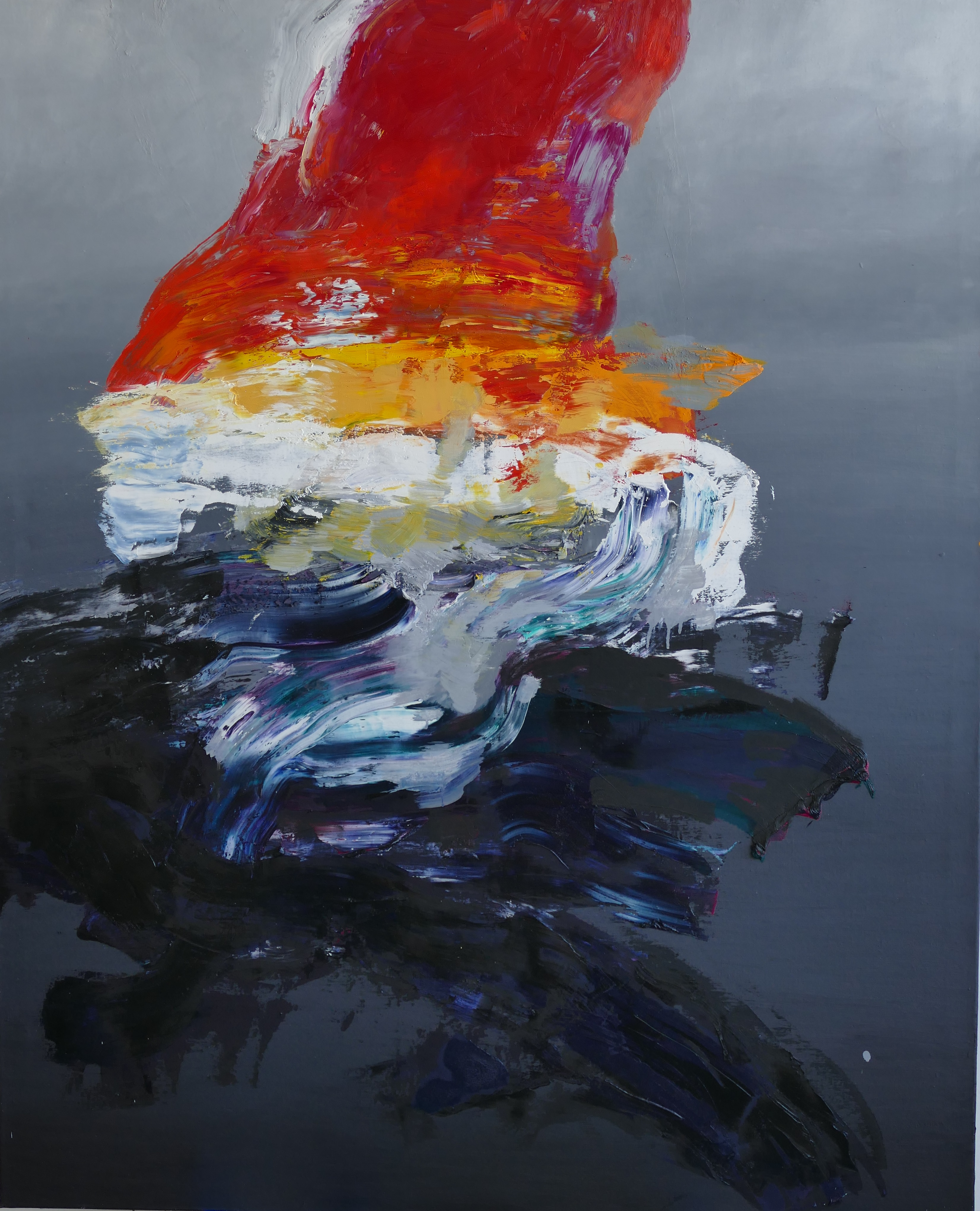 Hermann Kremsmayer, 160 x 130 cm, 2020